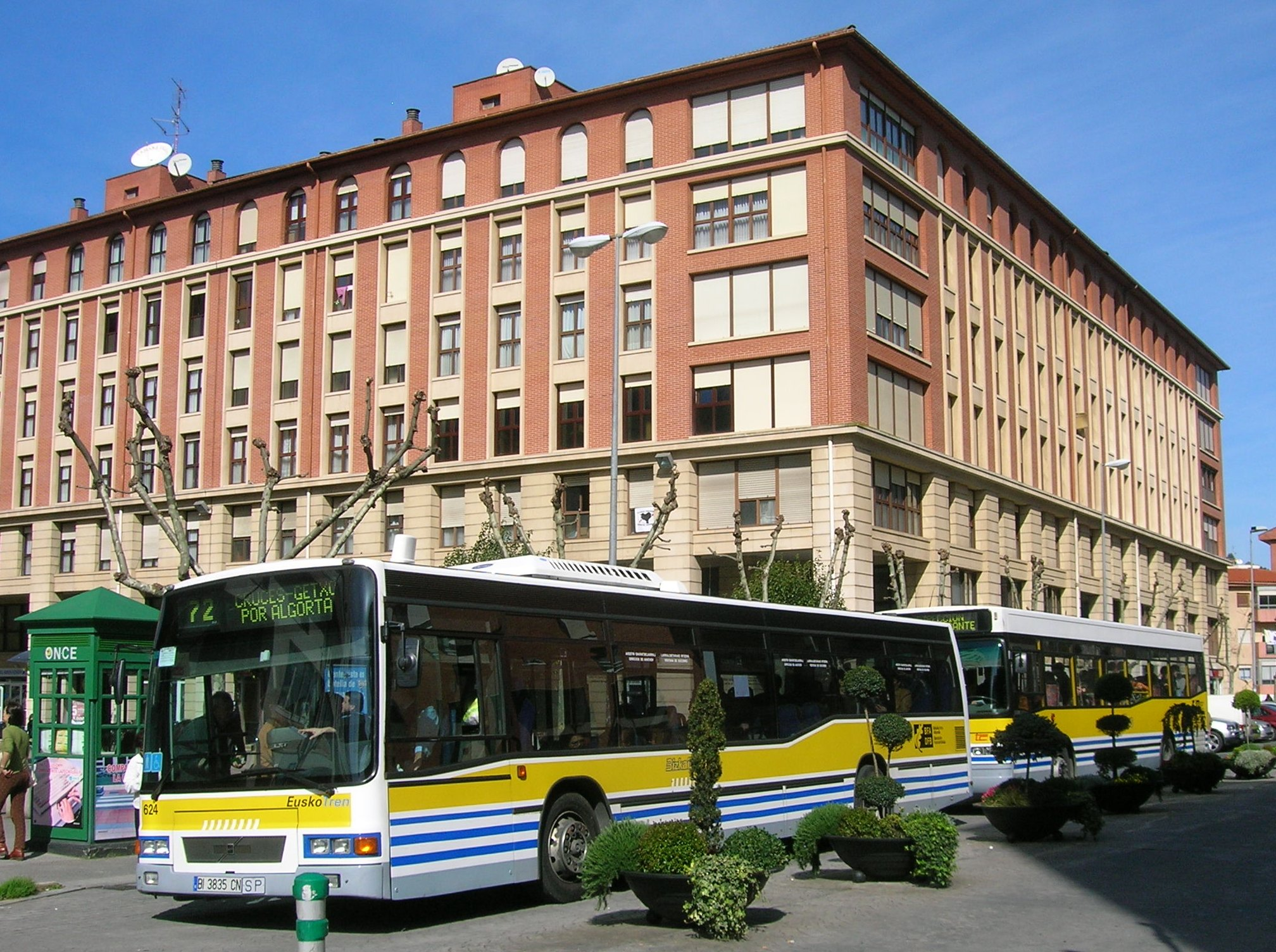 Bizkaibus buses at Basque Houses' Square (Euskal Etxeen Plaza) stop, Leioa/Lejona